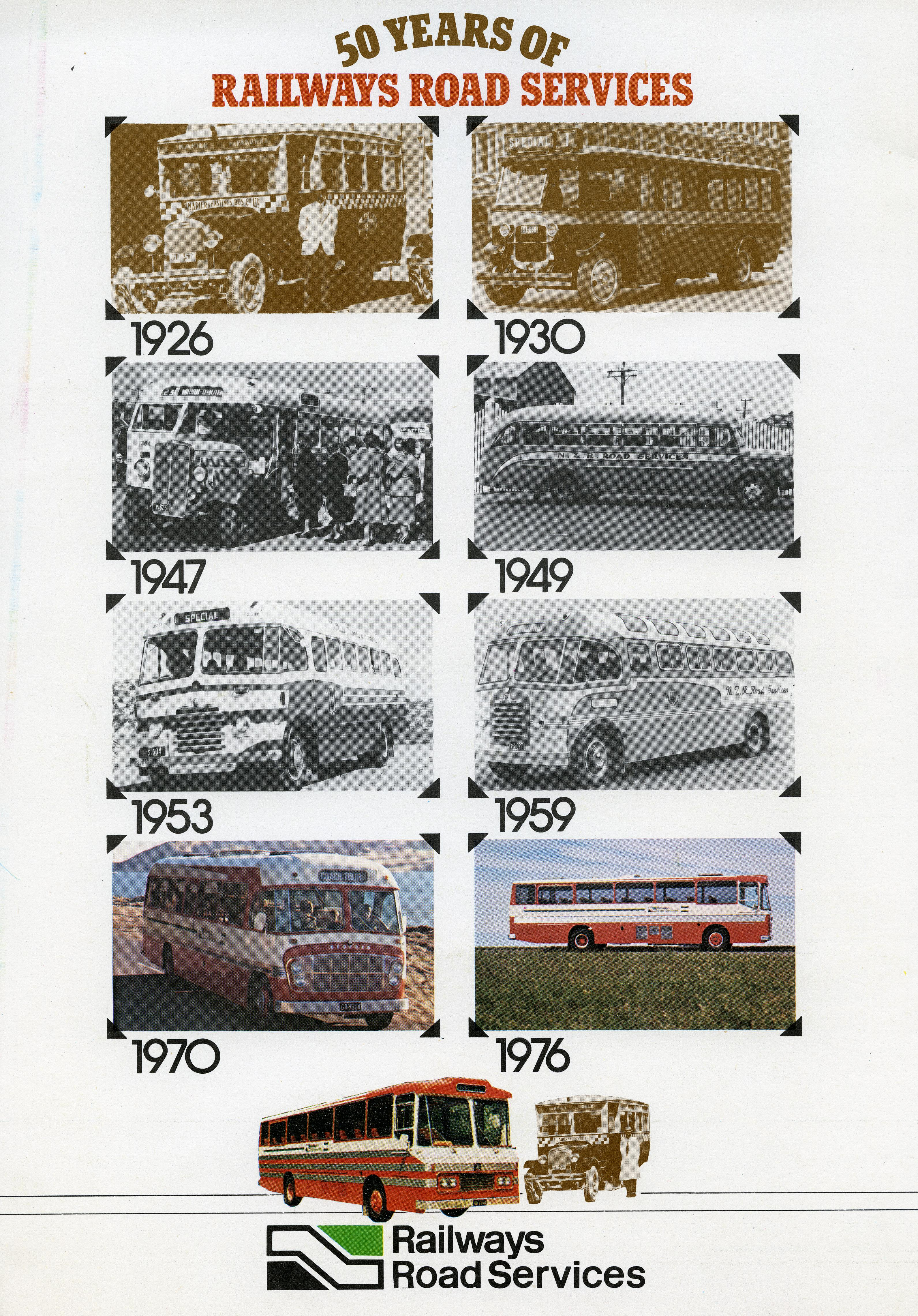 Archives Reference: ABIN W3337 Box 147 Back cover of a commerative publication about Railway Road Services in New Zealand published 1976, showing the buses used from 1926 to 1976. Railway Road services were established in the Hawke's Bay because the public preferred the convenience of bus travel over rail on route between Napier and Hastings. Regular services began between Napier and Hastings on 10 November 1926, called the Hastings-Napier Blue Fleet Bus services.